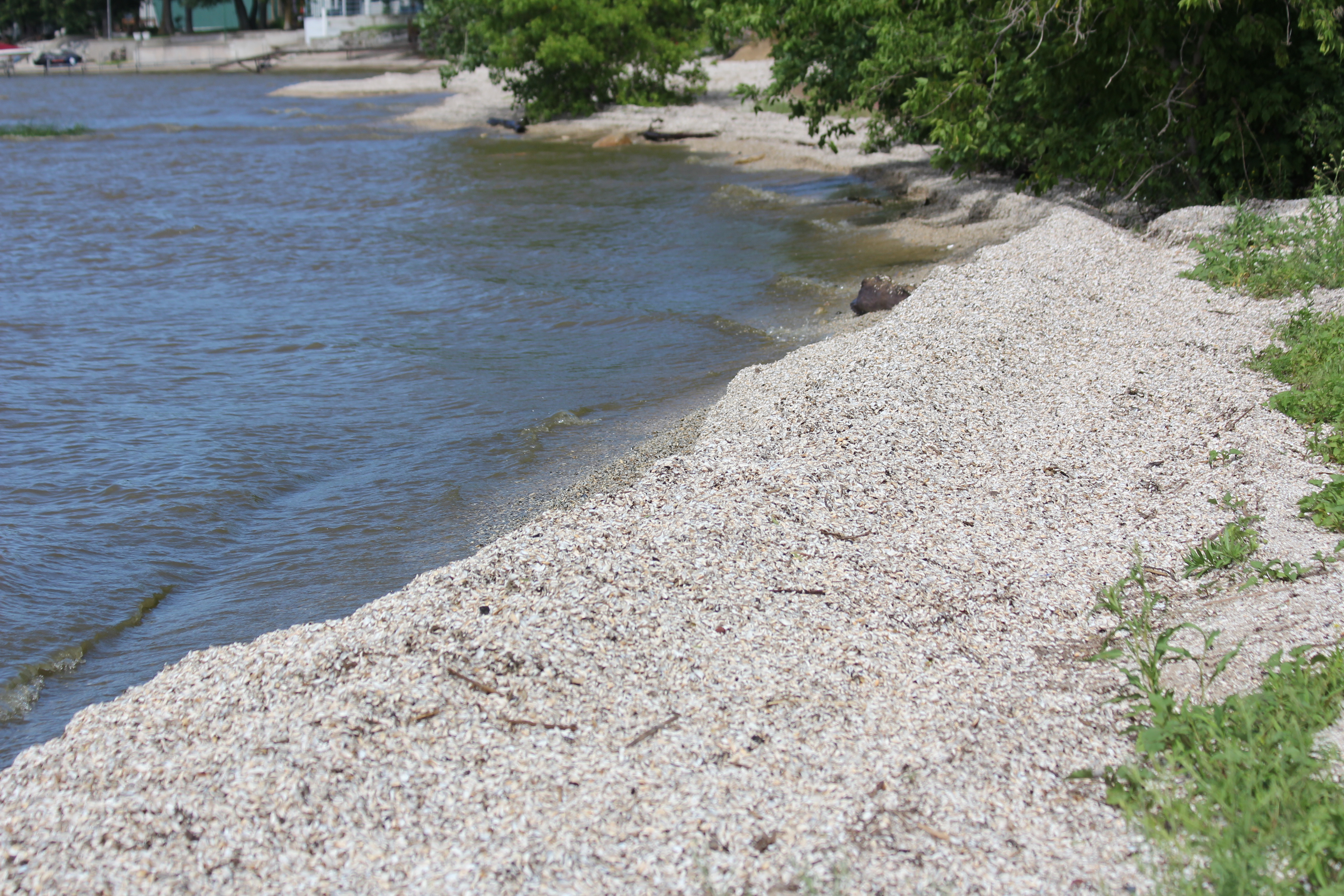 Zebra mussels (Dreissena polymorpha) line the shore of Lake Michigan at Red River County Park in rural Kewaunee County, Wisconsin. They are an invasive species to the Great Lakes.